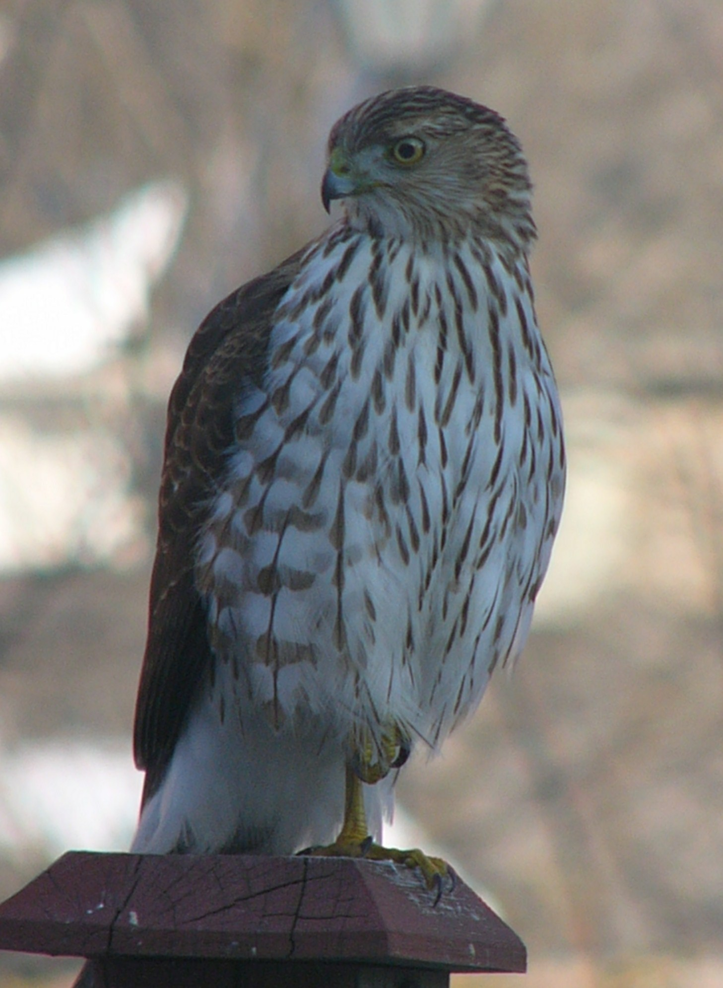 Bird of prey of the Accipiter genus - a juvenile Cooper's Hawk (Accipiter cooperii) [1], observed "hunting at a birdfeeder in Markham, Ontario, Canada."